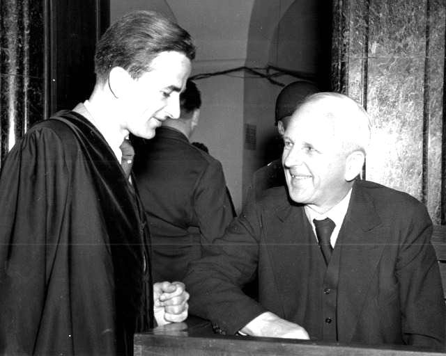 One of the not too serious moments is captured during court recess in the trial of Baron Ernst von Weizsaecker and twenty other former officials of the Nazi government. Here the former State Secretary in the German Foreign Office and last German Ambassador to the Vatican chats with his son Richard, 28, law student and presently acting as assistant defense counsel for his father. Young Weizsaecker is attending Goettingen University and resides in Lindau /Bodensee. [Original Descriptive Caption]